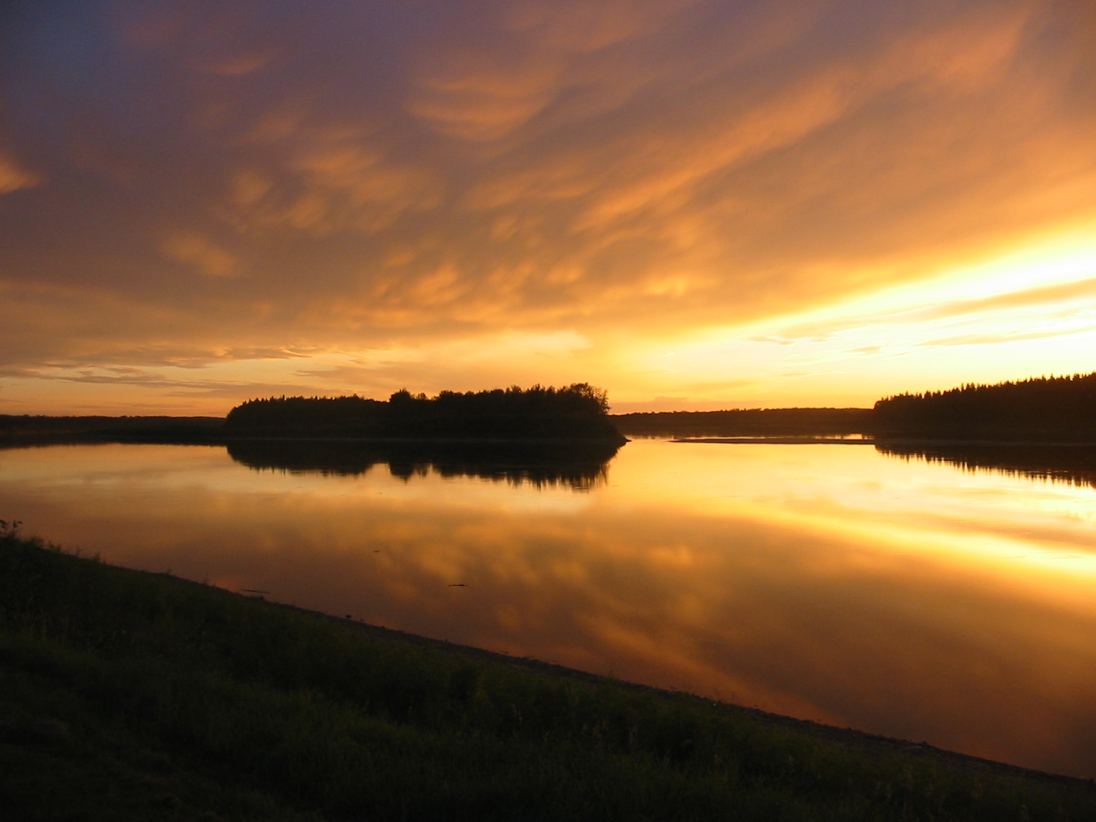 Sunset from shore of Peace River in Fort Vermilion.